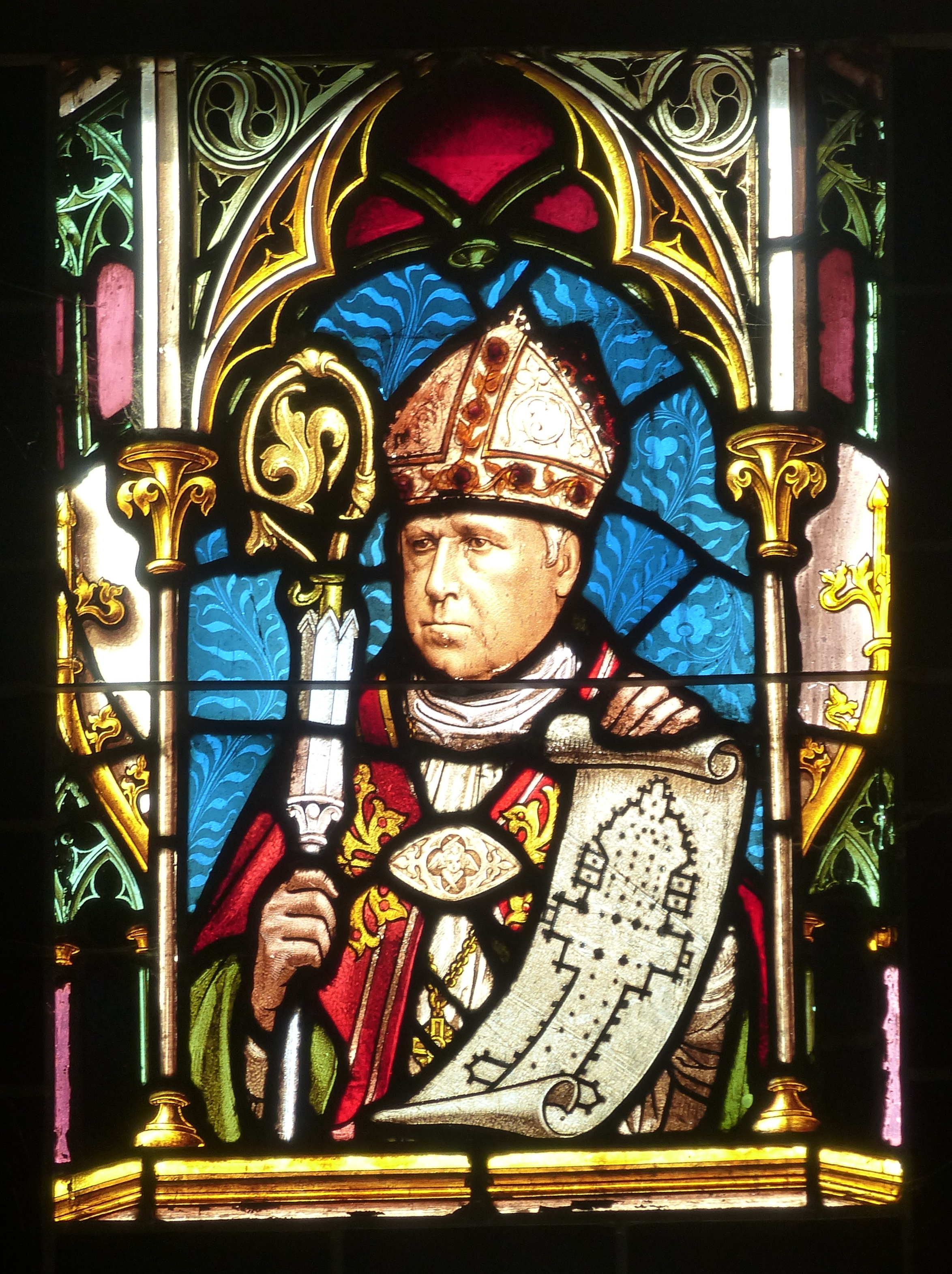 Gramastetten ( Upper Austria ). Saint Lawrence parish church: Stained glass window ( 1883 ) by Josef Kepplinger - Bishop Rudigier holding the plan of Linz Cathedal Dieses Bild wurde anlässlich des österreichischen Tags des Denkmals 2019 in Oberösterreich eingereicht. Diese Datei wurde im Rahmen von WikiDaheim 2019 in Österreich erstellt und hochgeladen.Sie wurde dem Themenbereich Denkmalschutz zugeordnet.